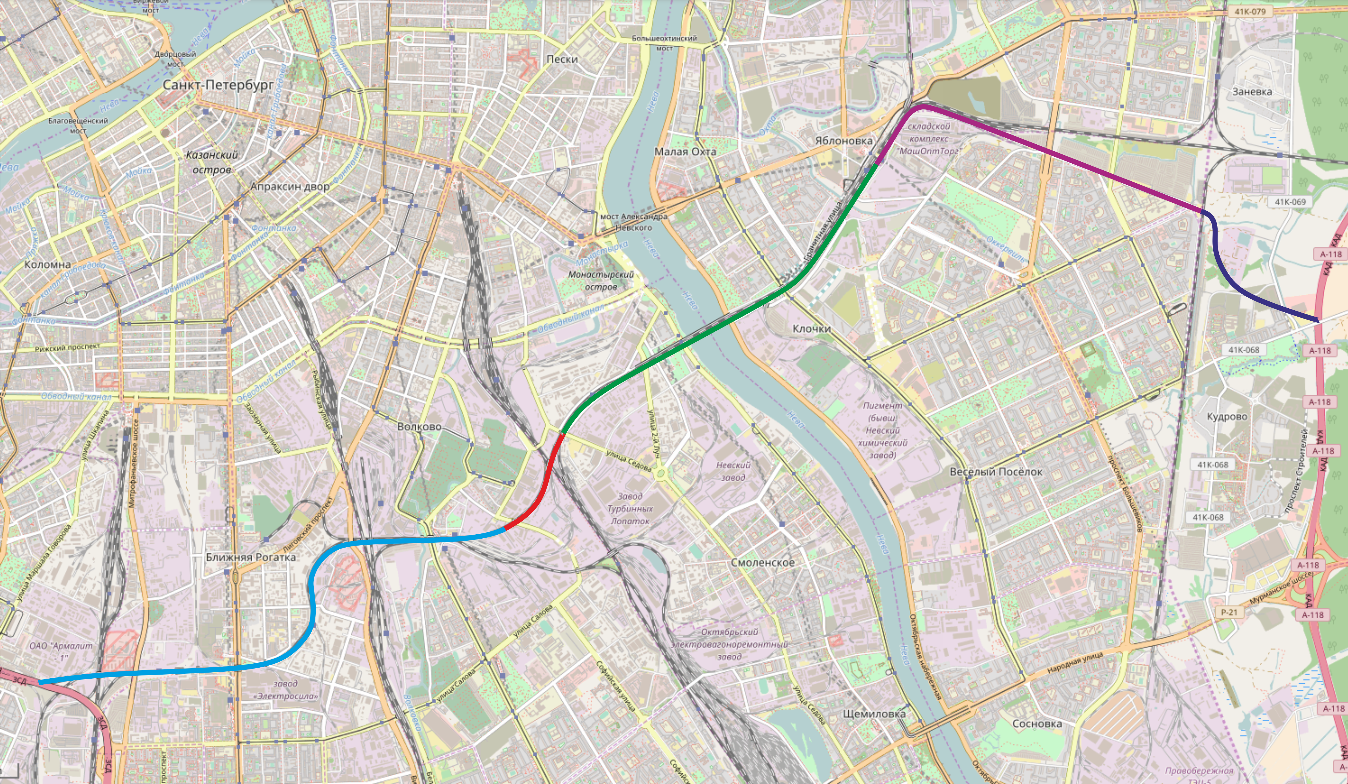 Eastern highway diameter